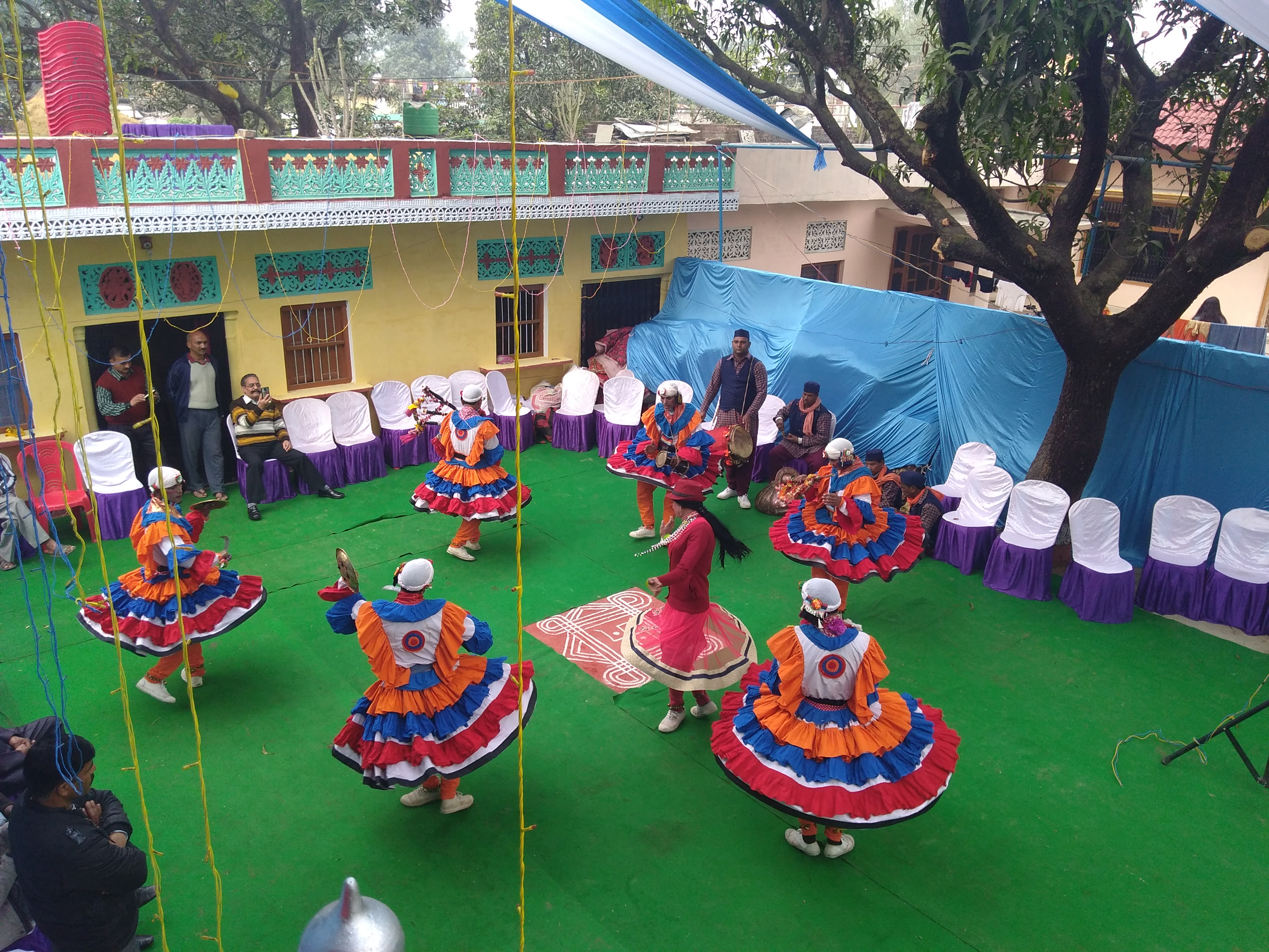 chholiya dance being performed in a marriage function in Khatima, Uttarakhand